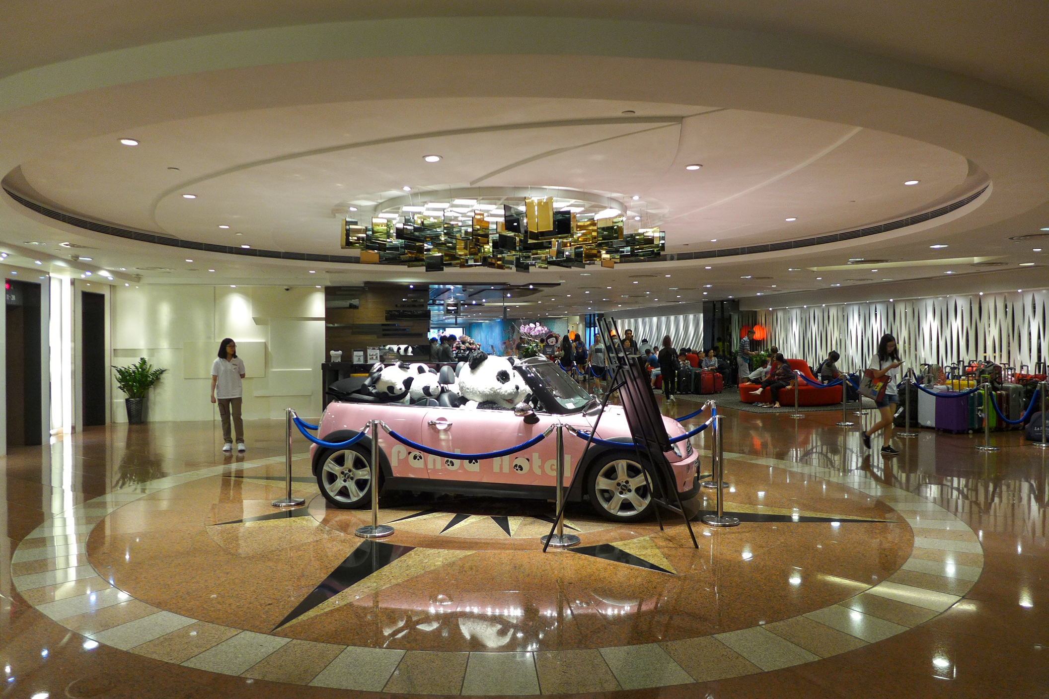 Panda Hotel Lobby